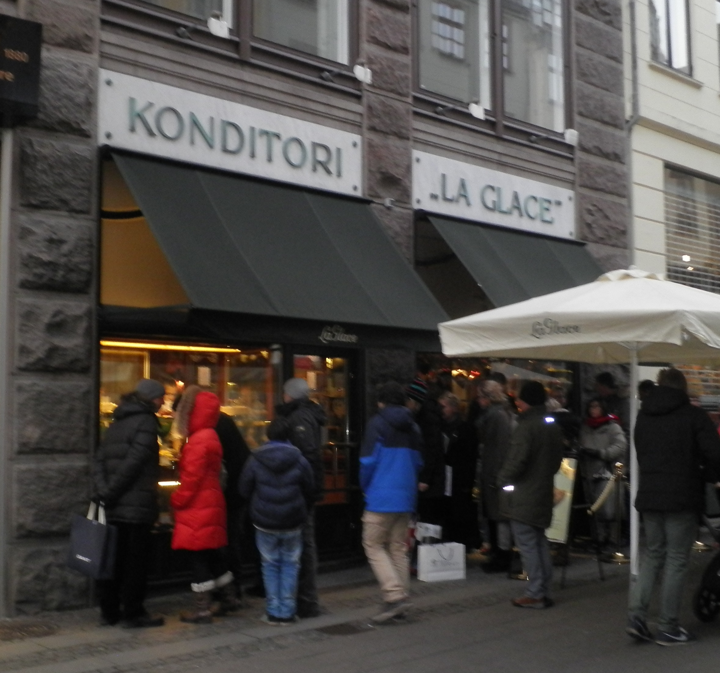 Conditori La Glace the oldest konditorei in Denmark, founded in 1870.